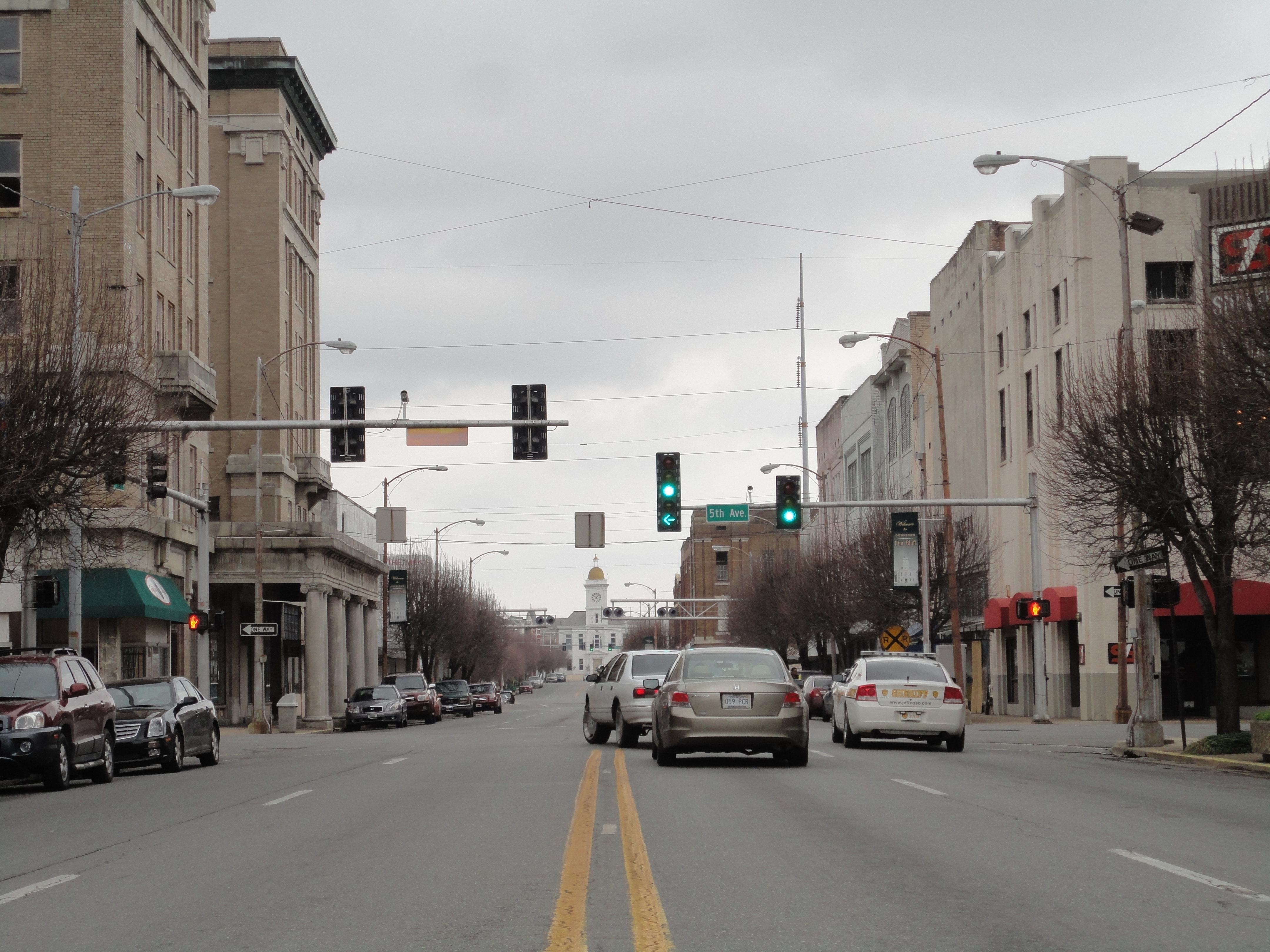 From flickr: Main Street from the South 2 - Pine Bluff, Arkansas